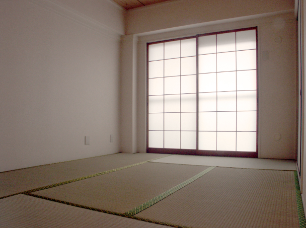 Tatami room with shoji I took this photograph and contribute it to the public domain.